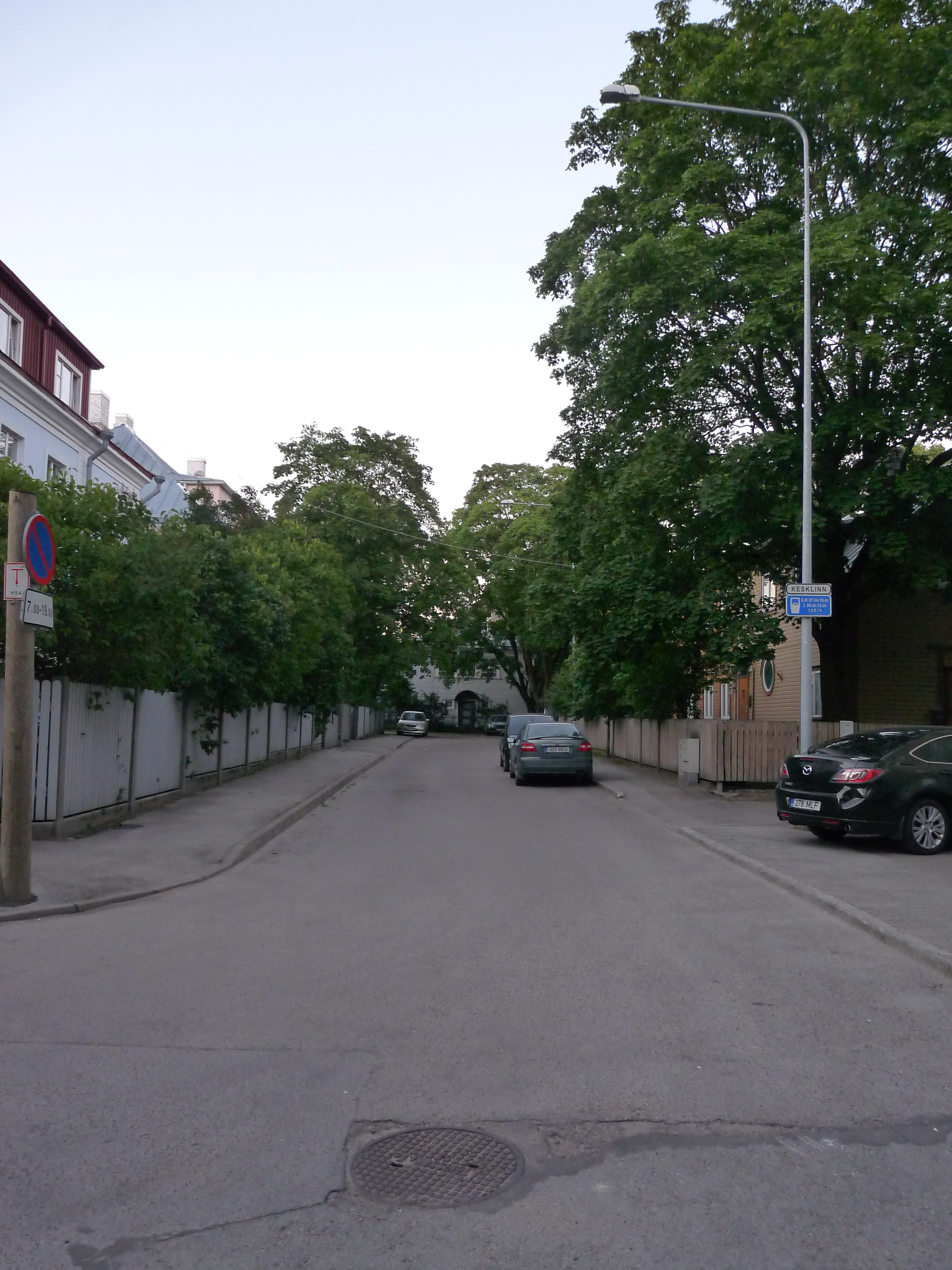 Oa street in Tallinn, Estonia